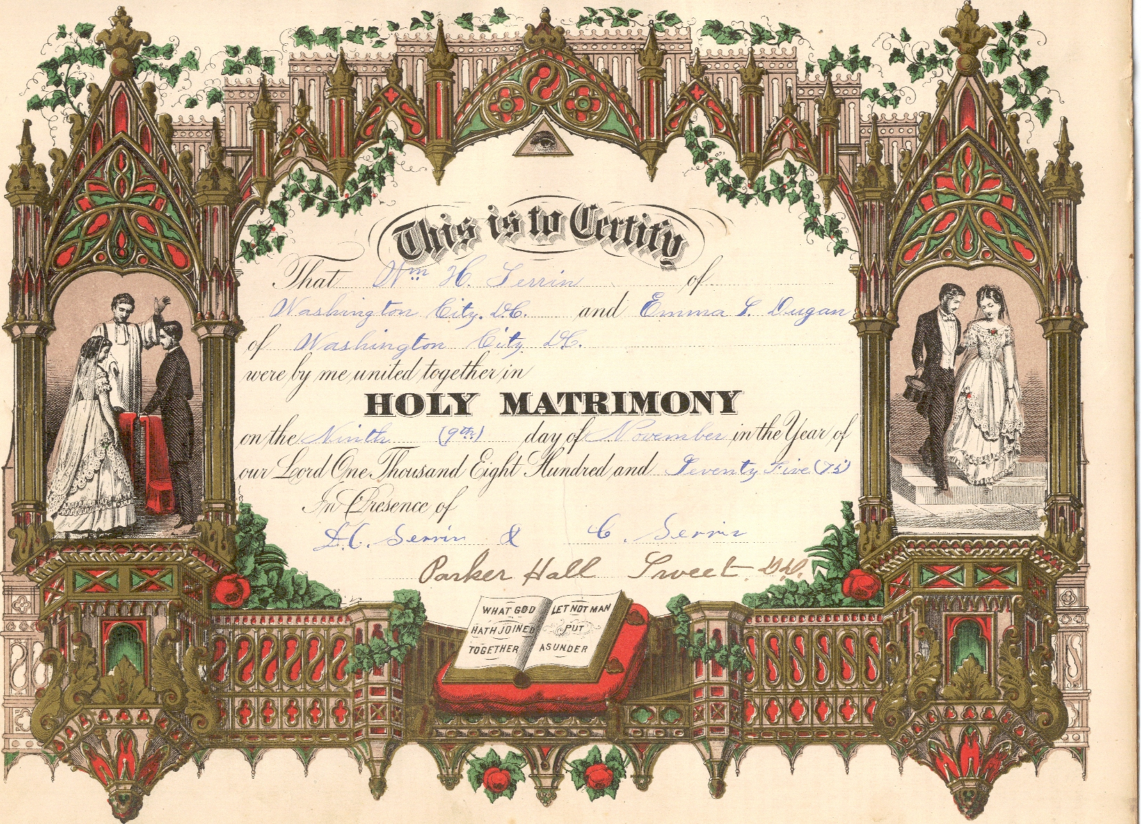 Marriage Certificate